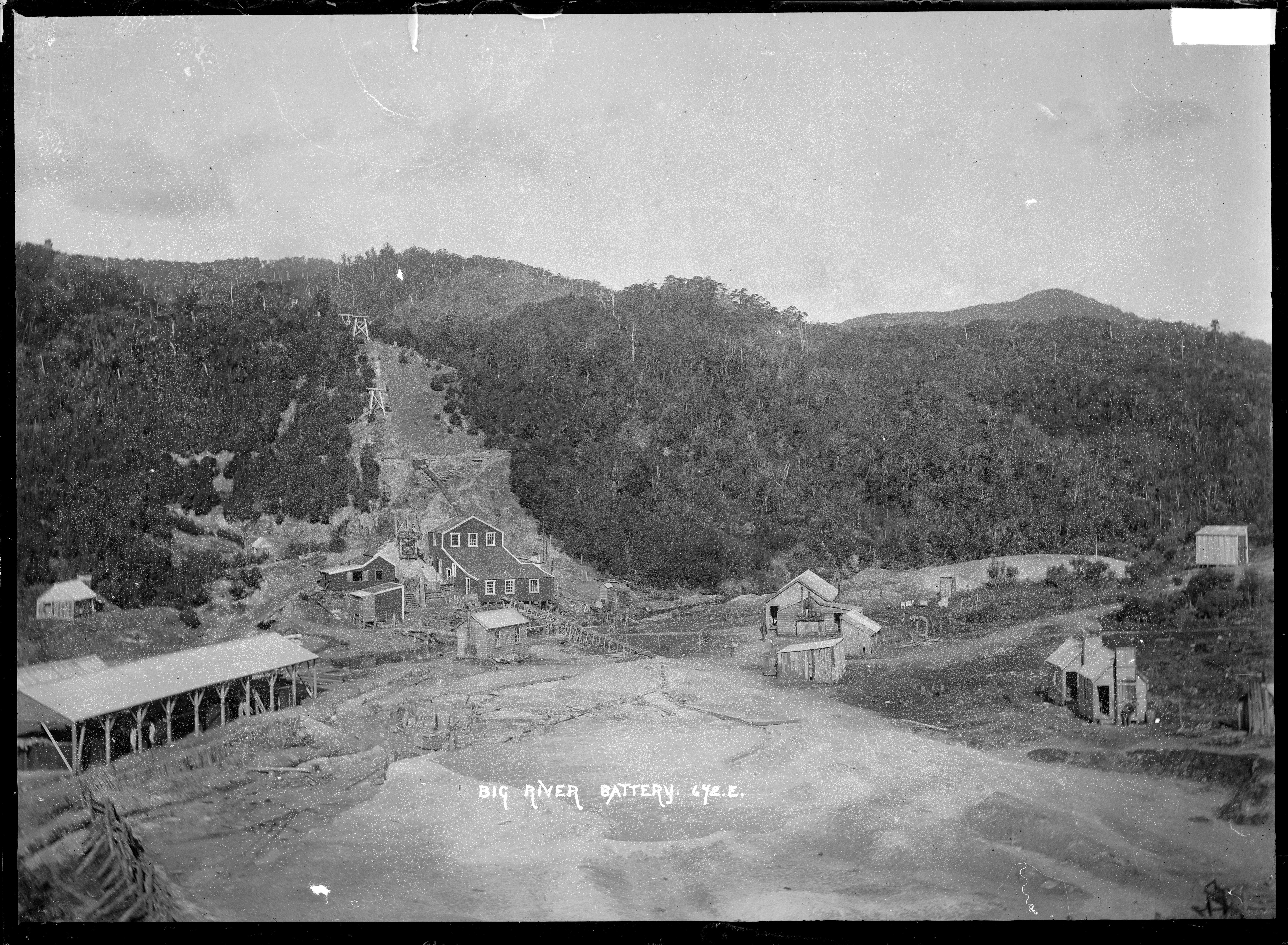 View of the Big River Battery at the gold mining settlement called Big River in the Buller District. The battery is left of centre. An aerial tramway delivering quartz from the mine to the battery is above. Buildings immediately left of the battery building are a blacksmith's shop and workshop. The small building in line with the battery is the assay room. There is a cyanide plant at left, with sands from the battery awaiting cyanide treatment in the foreground. Photograph taken by William Archer Price, ca 1910s. Inscriptions: Inscribed - Photographer's title on negative -bottom centre: Big River. Battery. [No.] 672E. Quantity: 1 b&w original negative(s). Physical Description: Dry plate glass negative View of the Big River Battery, Inangahua Co.. Price, William Archer, 1866-1948 :Collection of post card negatives. Ref: 1/2-000560-G. Alexander Turnbull Library, Wellington, New Zealand.